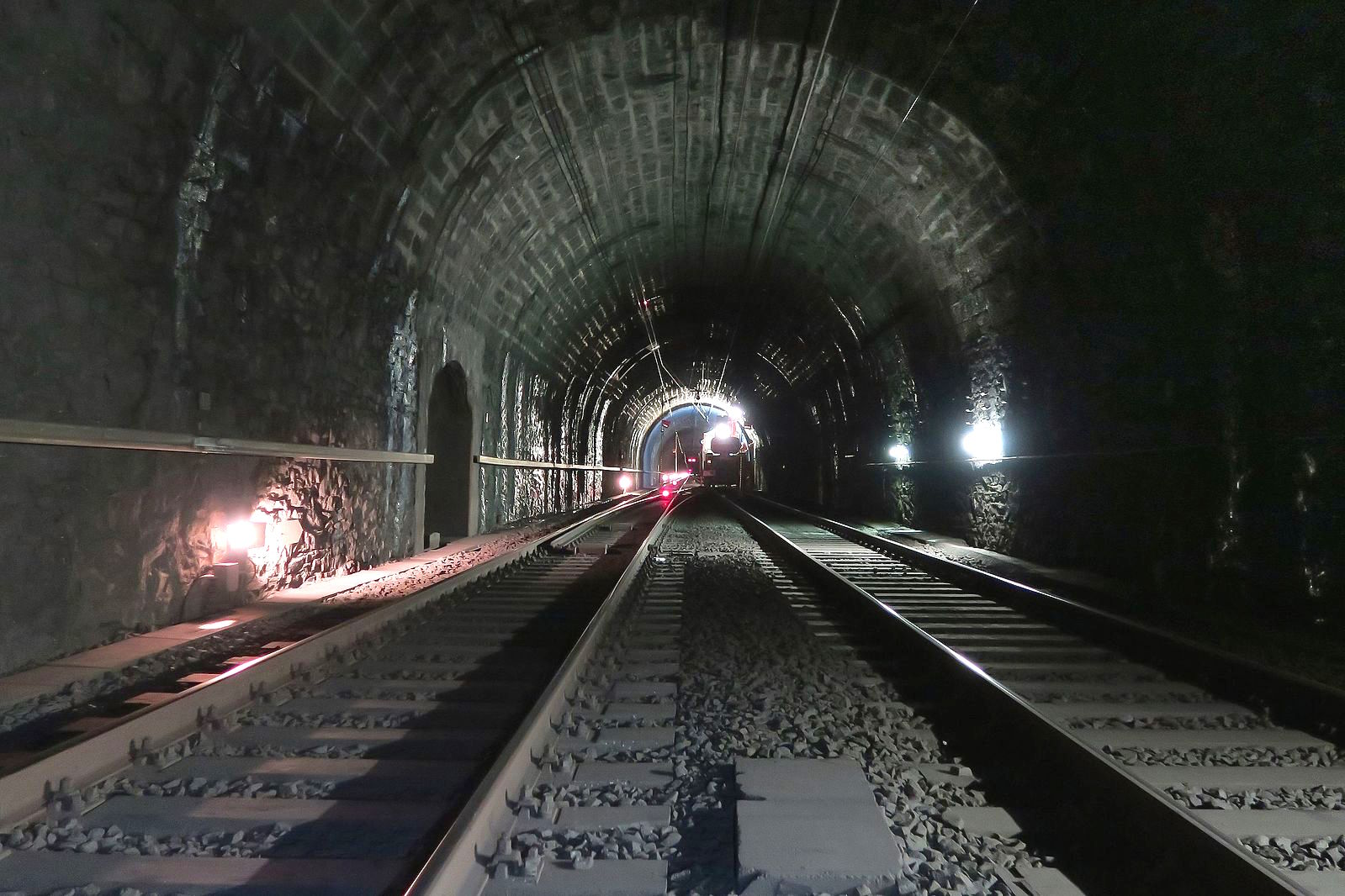 In the area of the turnouts, there are additional lightings switched on during the repair works. Switzerland, Oct 12, 2015. (30/49)